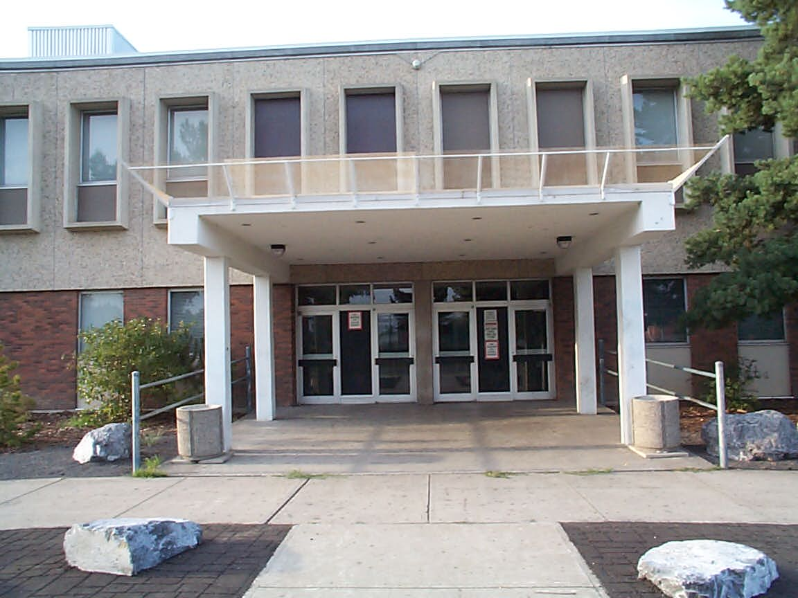 Lord Beaverbrook High School, 9019 Fairmount Drive S.E., Calgary, Alberta, Canada, T2H 0Z4.